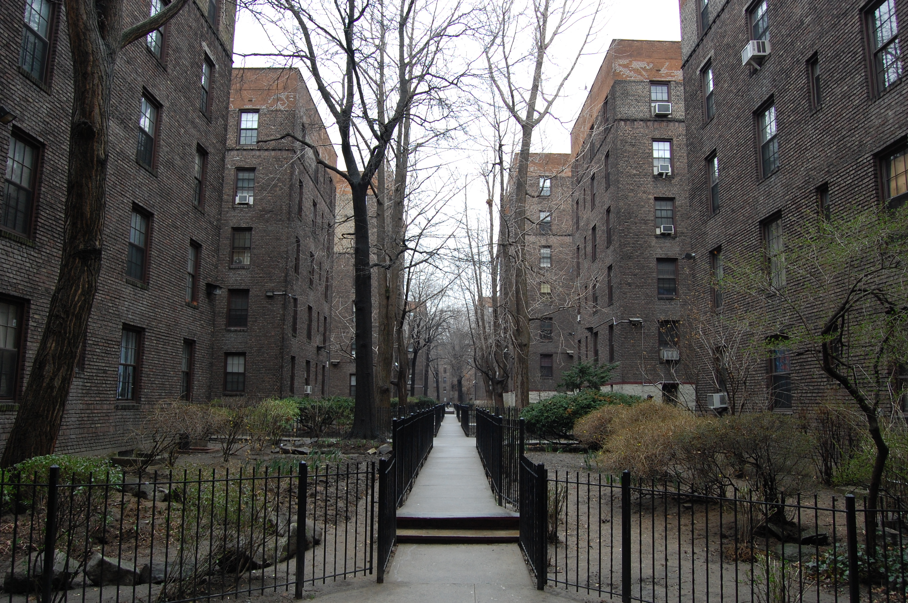 This photo is of Wikipedia Takes Manhattan location code 56, Dunbar Apartments.